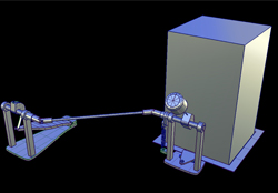 Italian patented Cajon pedal. Ovidio Venturoso.